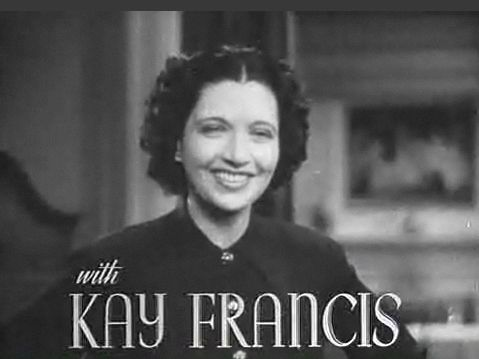 Screenshot of Kay Francis from the film My Bill